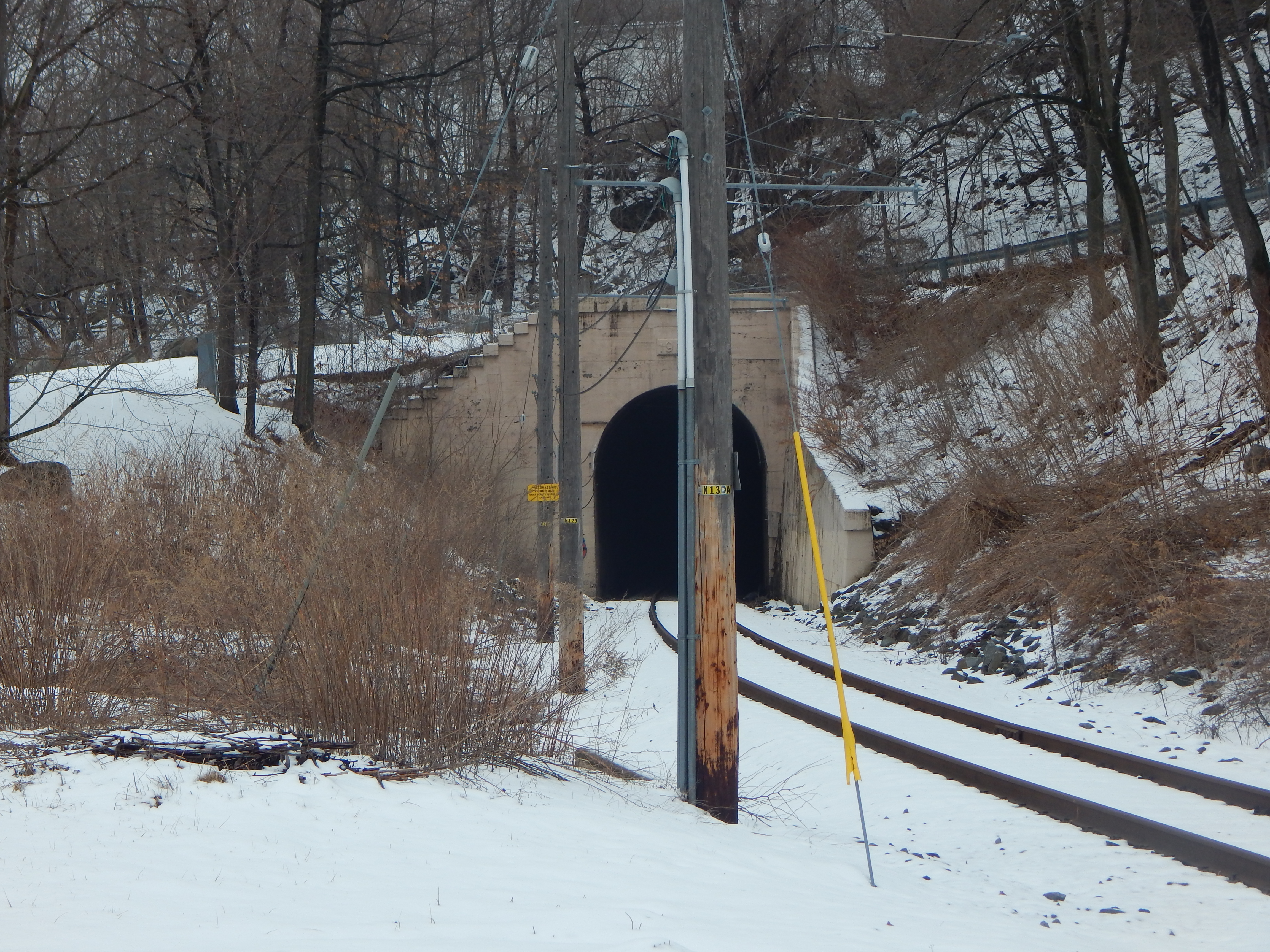 The Edward S. Miller Tunnel in Scranton, Pennsylvania.